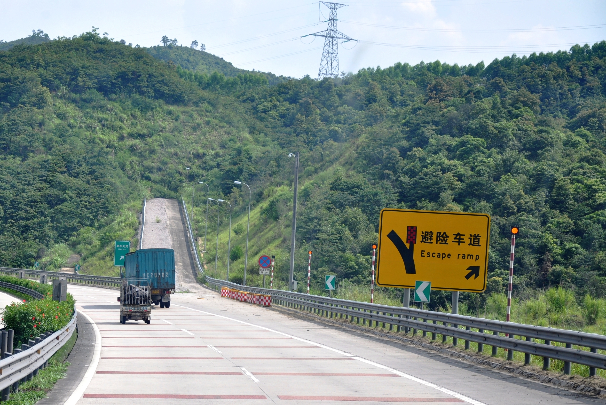 Escape Ramp In China Expwy G4511